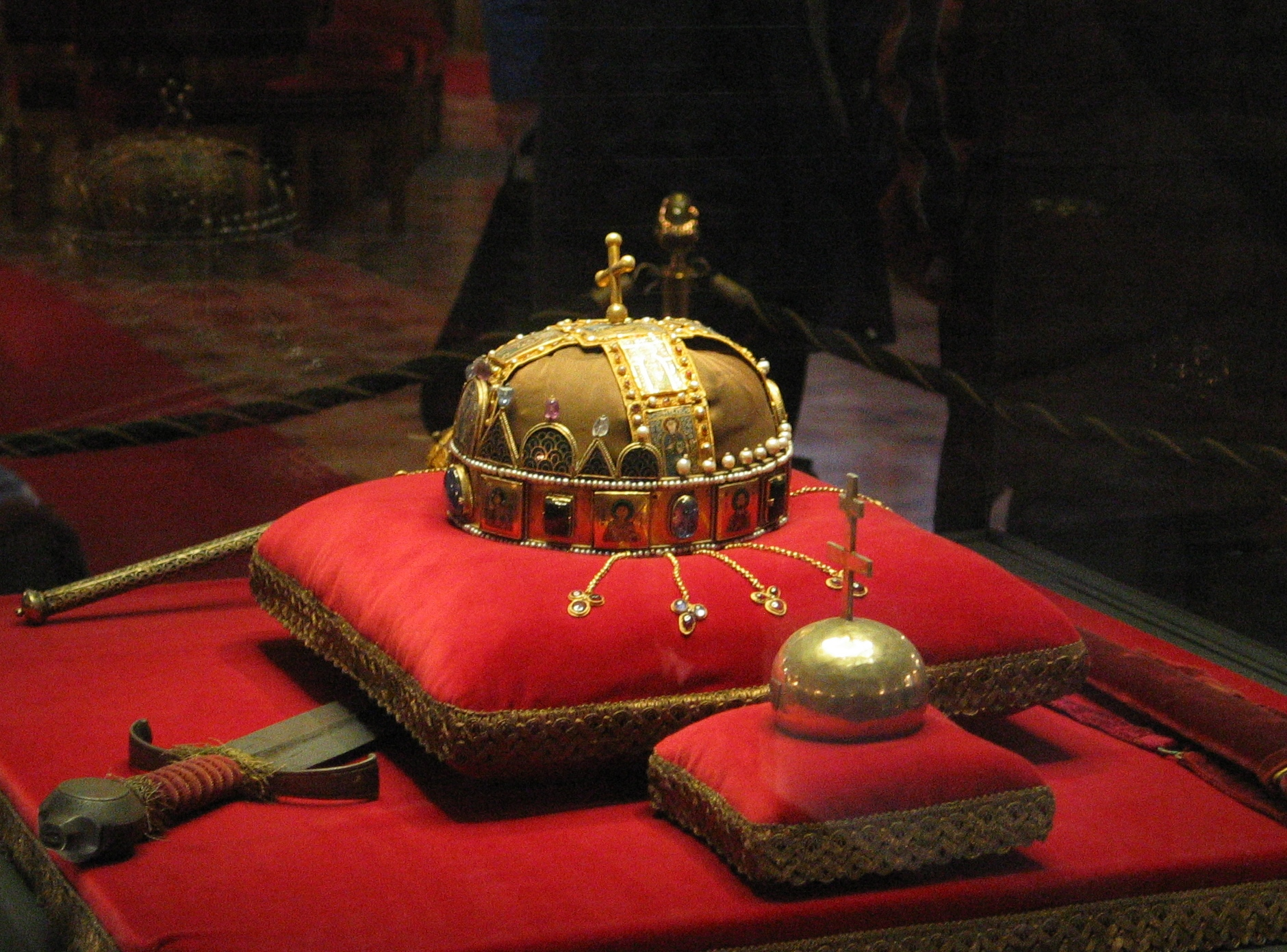 Saint Stephen's Crown, the Sword and the Orb of Hungary. The Holy Crown of Hungary, also known as the Crown of St. Stephen. The Holy Crown a closed type crown, the symbol of full sovereignty in the medieval period. Only three monarchs had the right to wear closed crowns in medieval Europe: Holy Roman Emperors, Byzantine Emperors, and Kings of Apostolic Kingdom (Hungary). Open-type crowns were vassal crowns in medieval Europe.